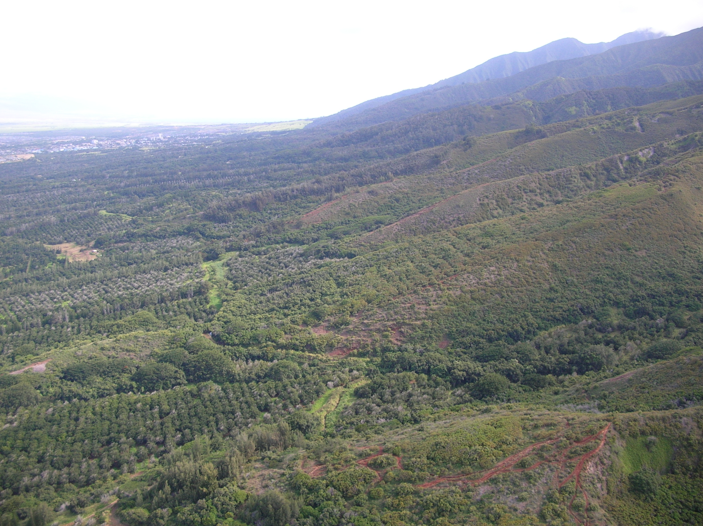 Macadamia integrifolia (habitat). Location: Maui, West Maui